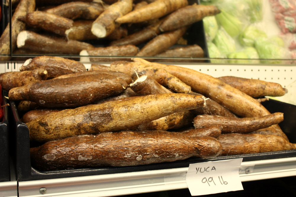 Juan, who, again, is from Mexico City, noted he doesn't cook with Yuca, and considers it more of a South American ingredient. Bladholm says "Yuca takes some preparation." You must remove the peel, the flesh just under the skin and the central core. It can be mashed, made into fries (recipe here) or used in a soup with plantains, corn and chicken called Sancocho (recipe here).